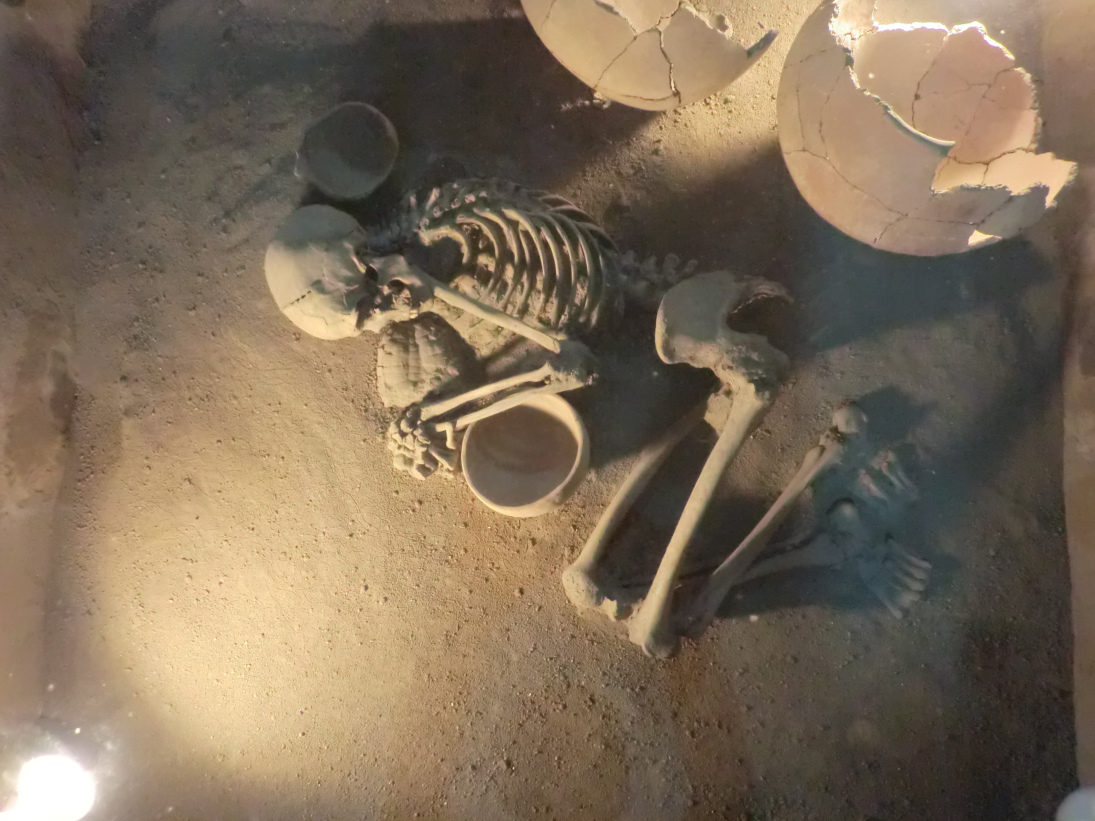 3200 year old skeleton in ecbatana museum